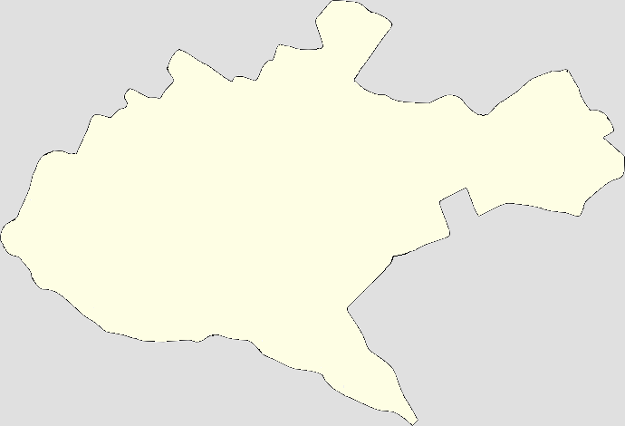 I cropped this from the Kenya location map to fit in the teams from Nairobi in the Kenyan Premier League. They were crowded on the Kenya location map and some never even had space.